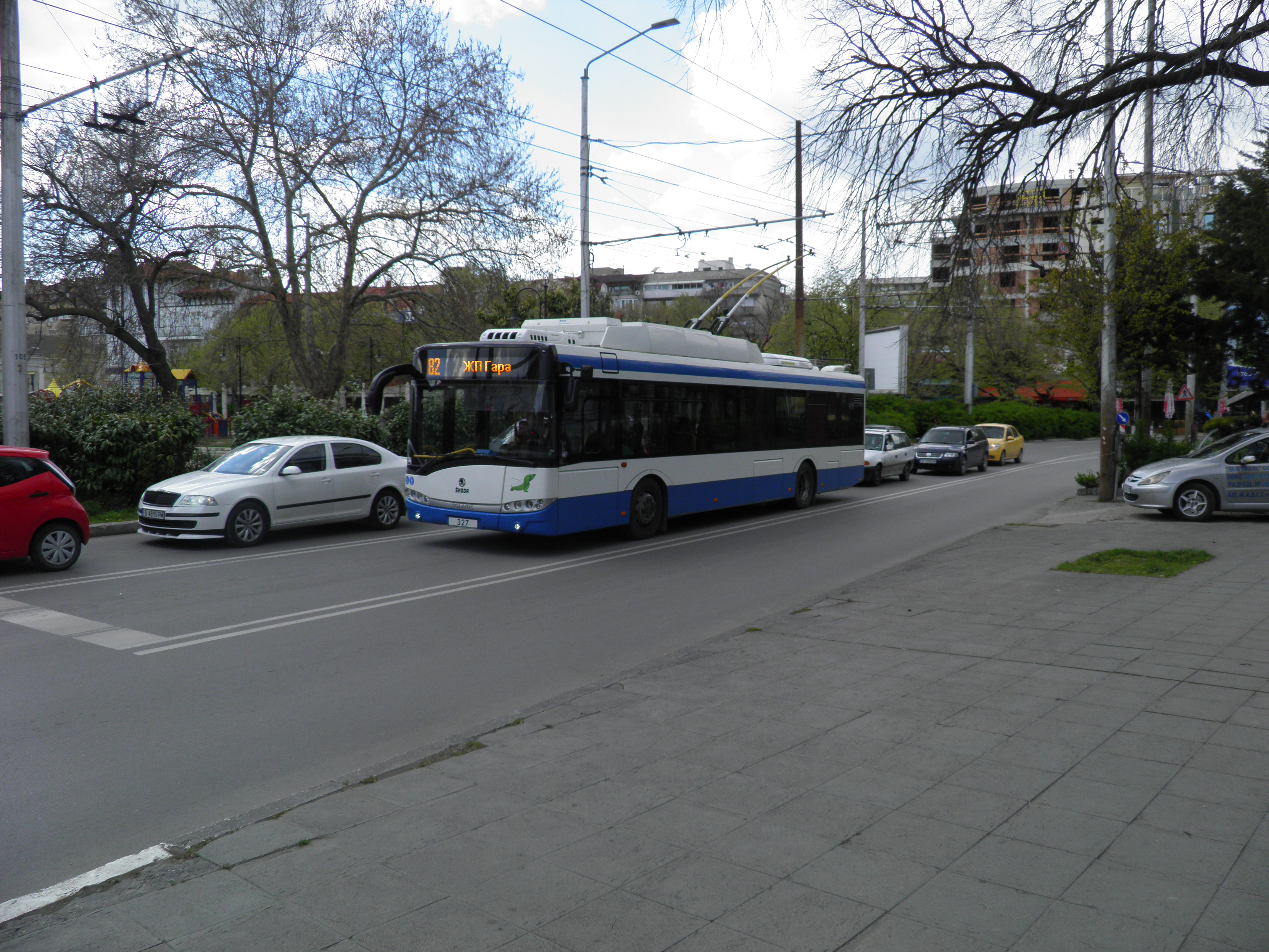 Trolleybus Solaris Varna